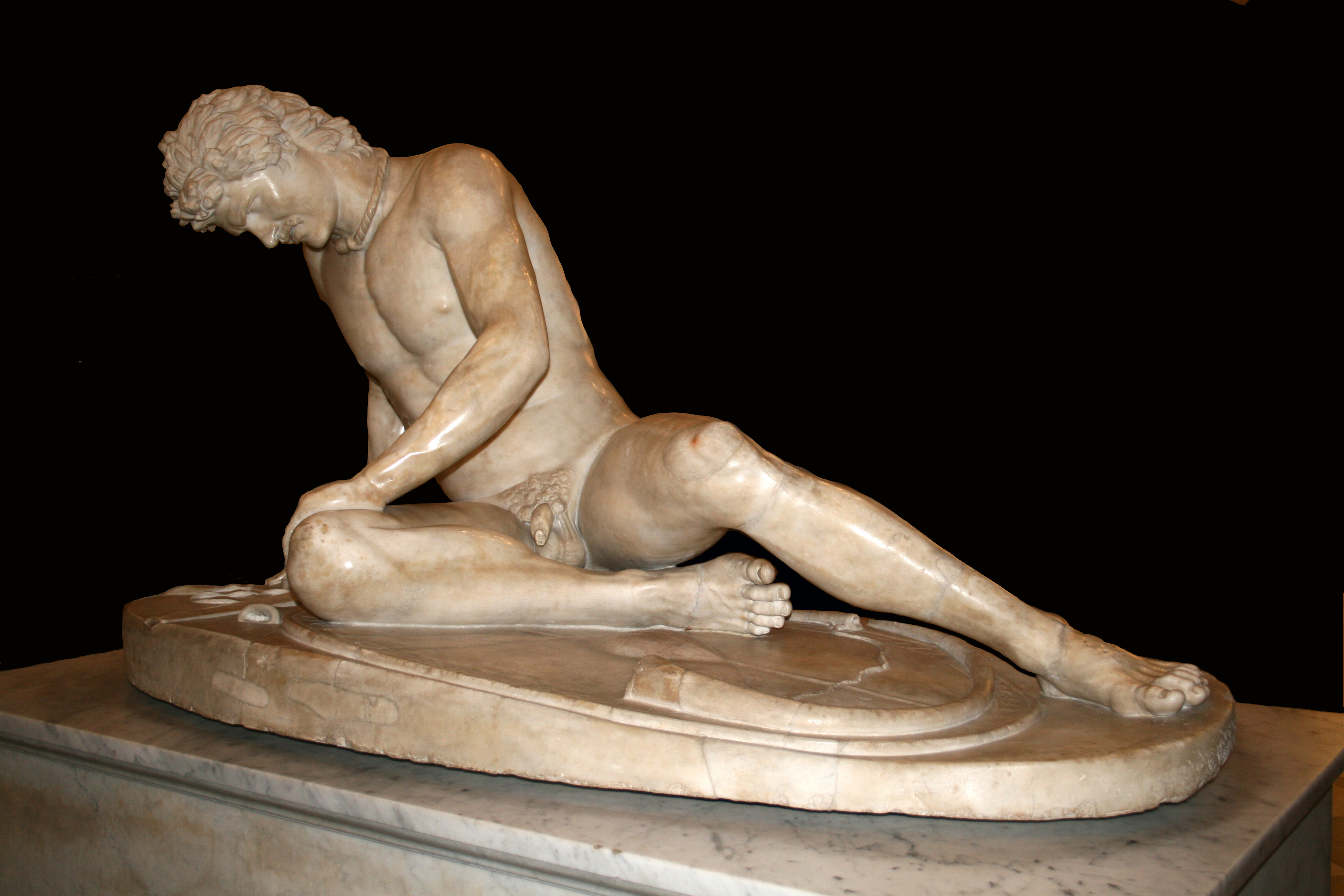 The Dying Gaul is one of the best-known and most important works in the Capitoline Museums. It is a replica of one of the sculptures in the ex-voto group dedicated to Pergamon by Attalus I to commemorate the victories over the Galatians in the 3rd and 2nd centuries BC. The identity of the author of the original is unknown, but it has been suggested that Epigonus, the court sculptor of the Attalid dynasty of Pergamon, may have been its creator.